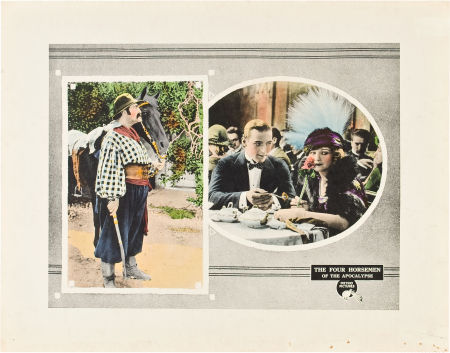 Lobby card for the American film The Four Horsemen of the Apocalypse (1921).